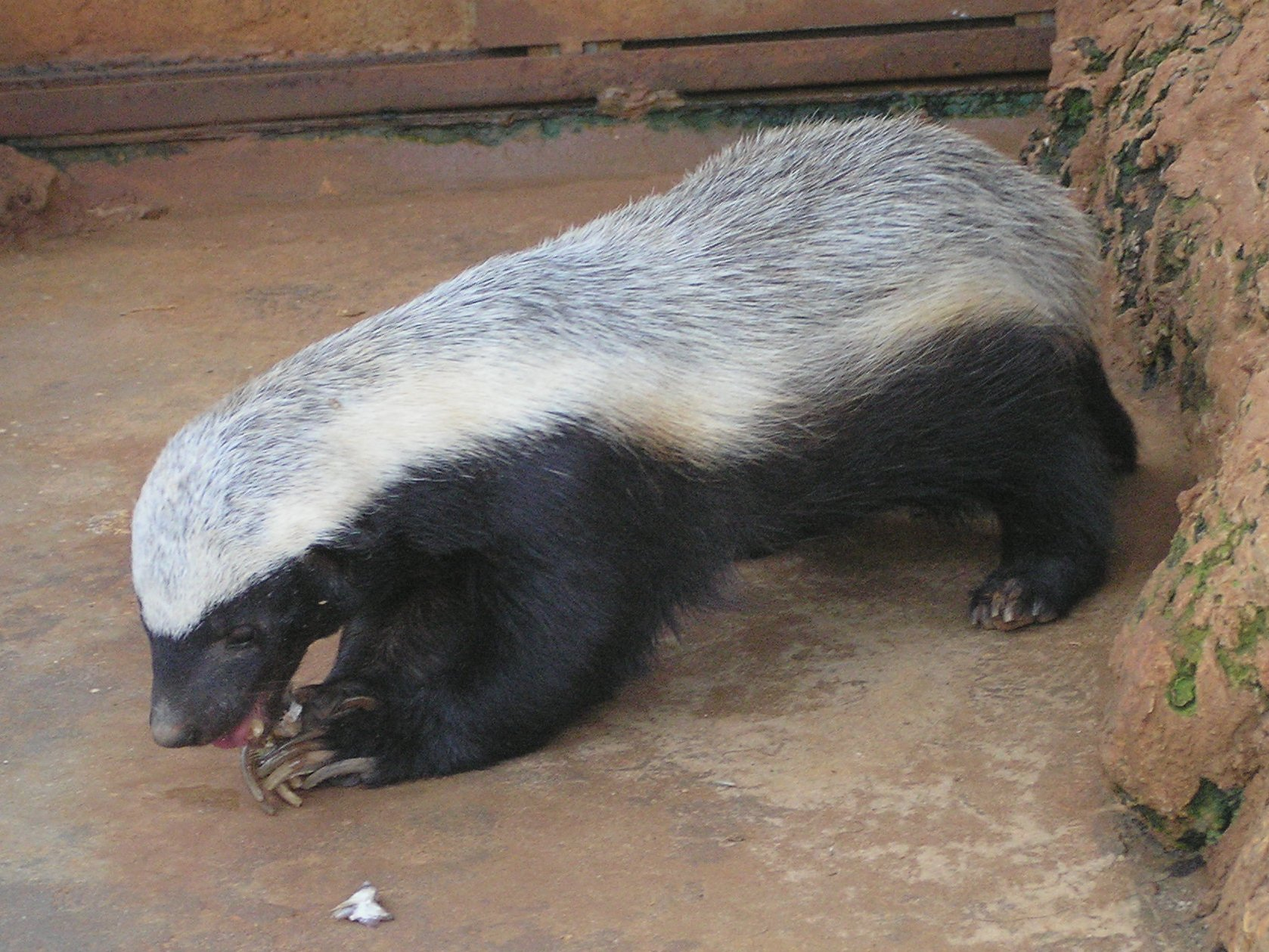 Taken in the Garden for Zoologic Research, Tel Aviv University, Israel.